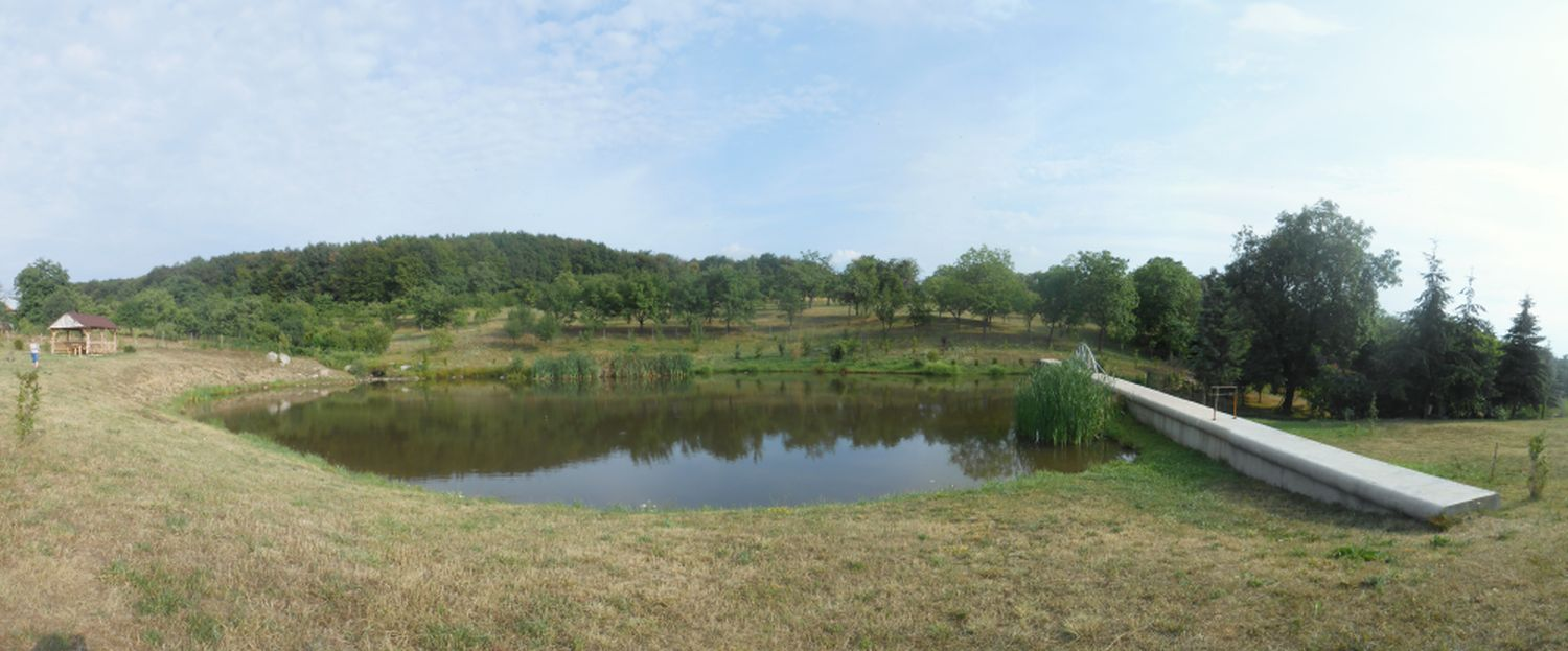 Dam in Koromľa (Sobrance District) built to protect the village from flood